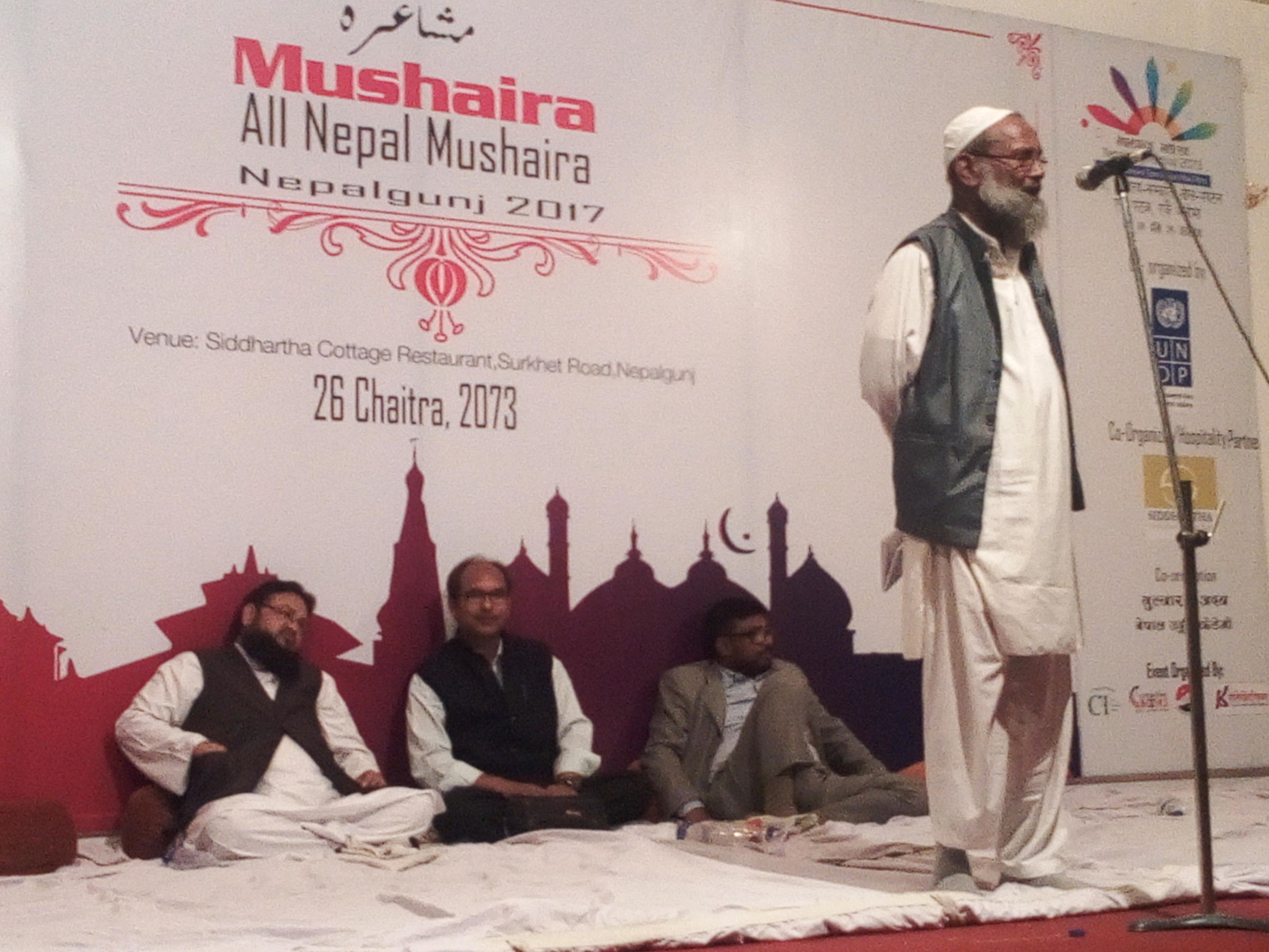 Shauq Nepali in 2017 All Nepal Mushirah Nepalgunj